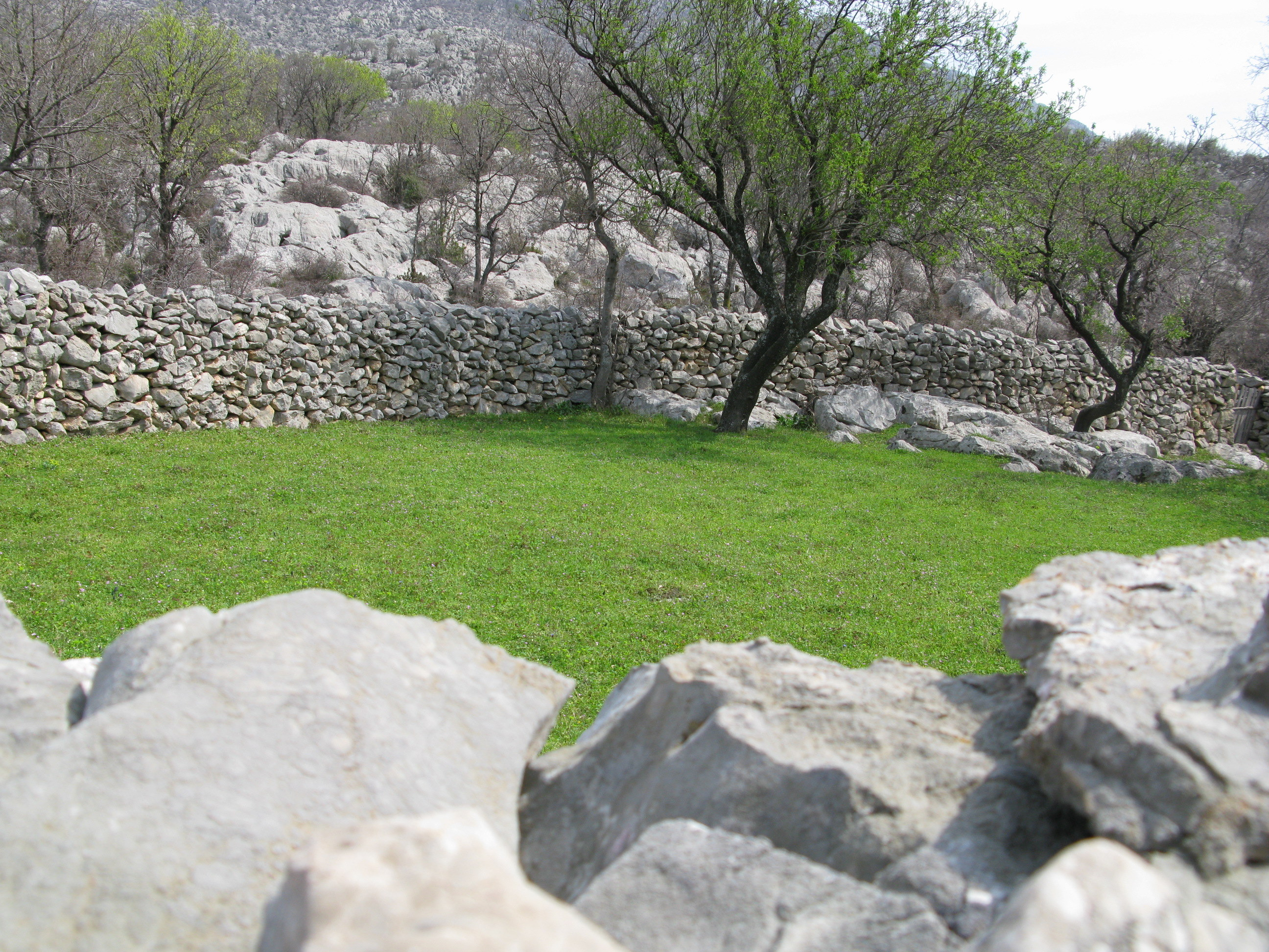 Stone wall near Starigrad in the Velebit mountain range in Croatia.